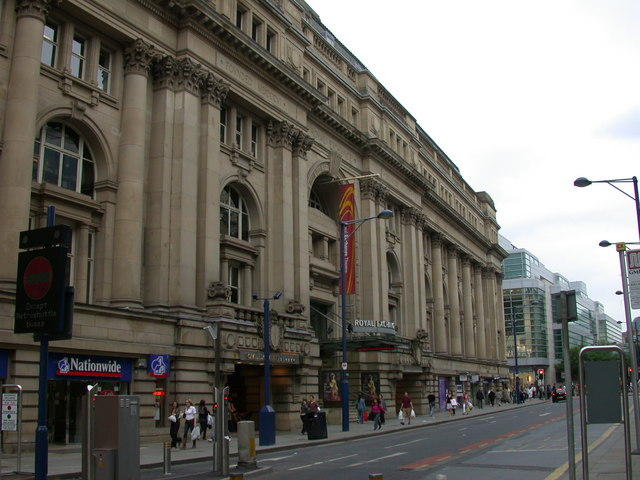 Royal Exchange Theatre This building was formerly a cotton & textiles exchange, and is inscribed "FOVNDED MDCCCVI". It was heavily damaged by the IRA bombing in 1996, but was repaired and returned to use by 1998.